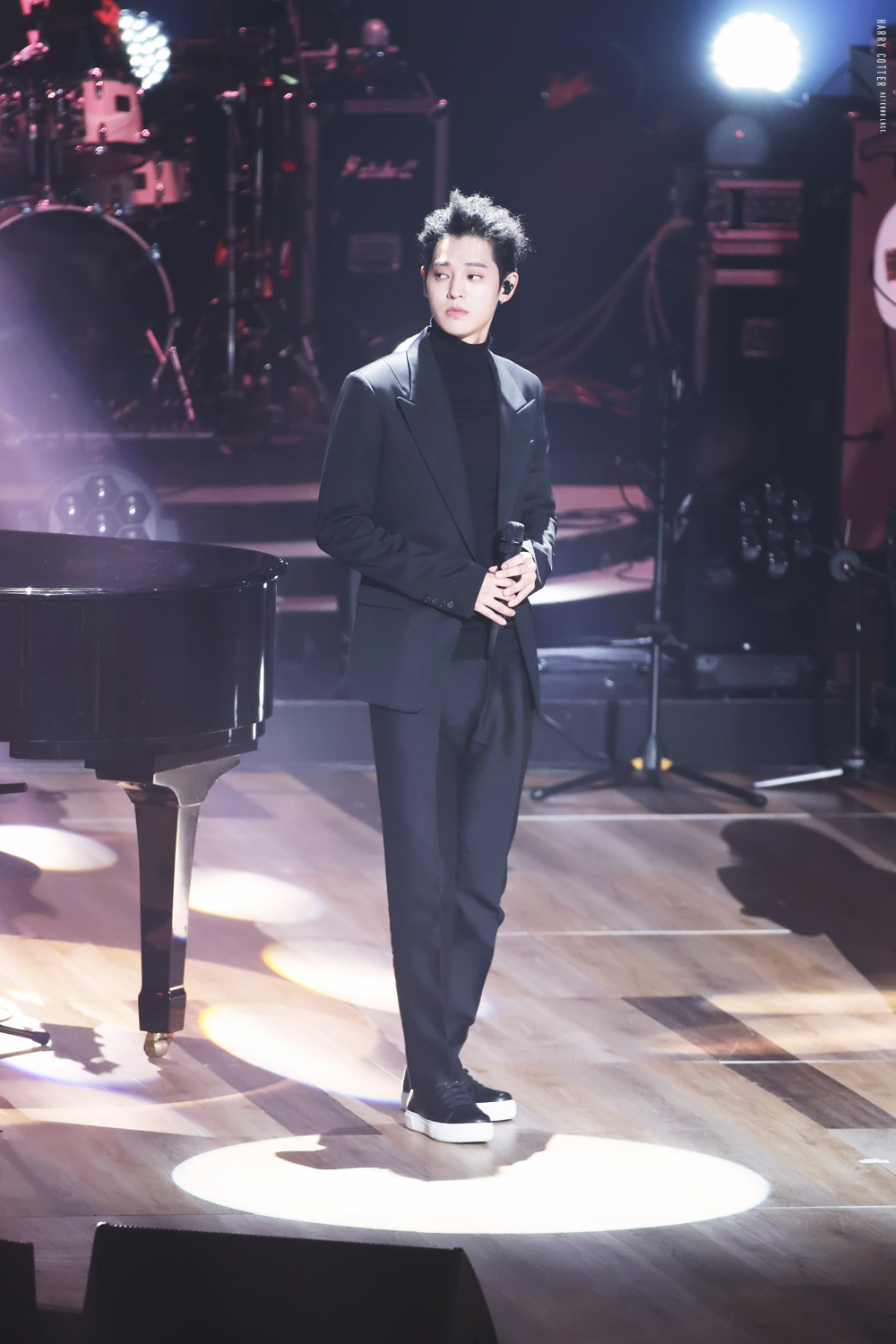 Jung Joon-young during recording for You Hee-yeol's Sketchbook on February 7, 2017.